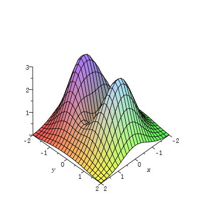 graph of a two-variable function f(x,y)=(x^2+3y^2)exp(1-x^2-y^2) plotted using Maple(program)